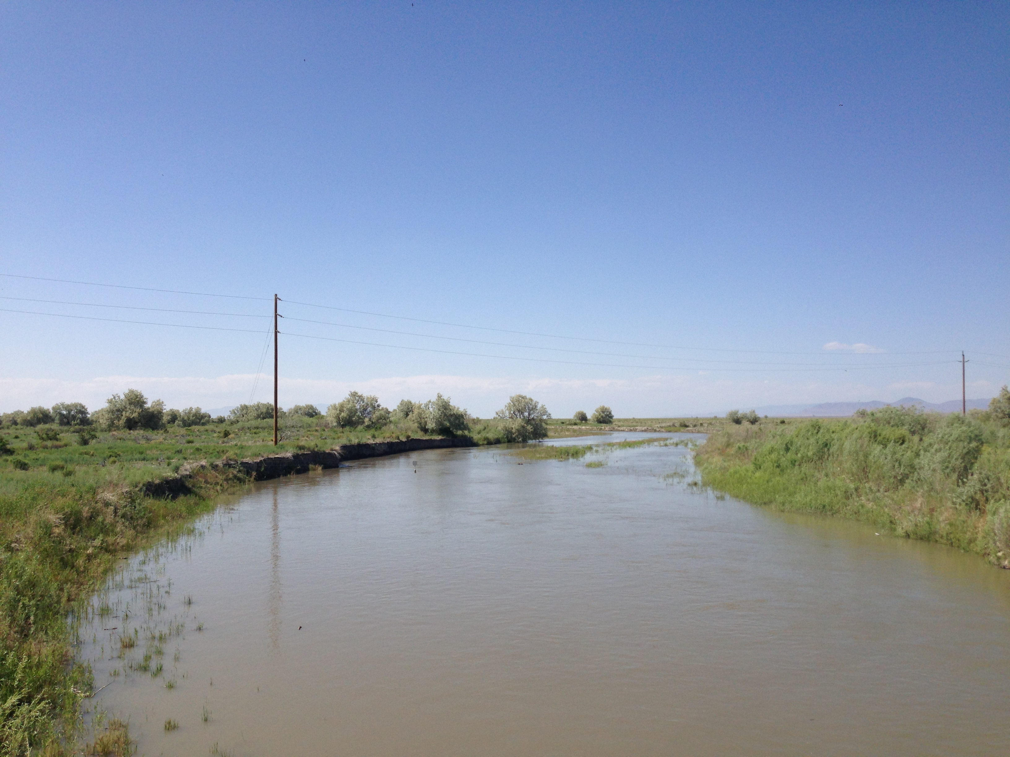 View down the Humboldt River from Nevada State Route 806 in Battle Mountain, Nevada